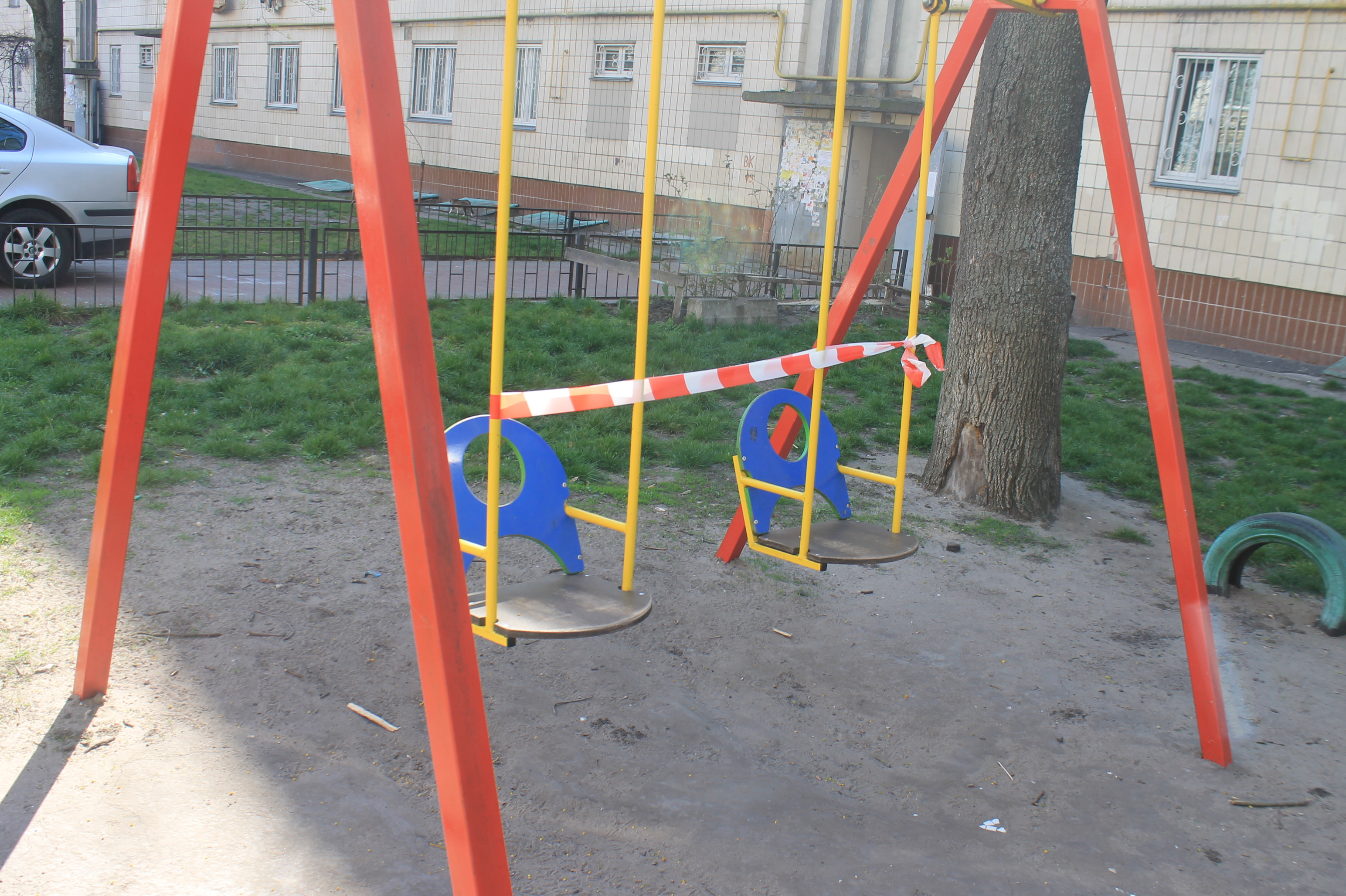 Playground in Kiev prohibited for children by Ukrainian government